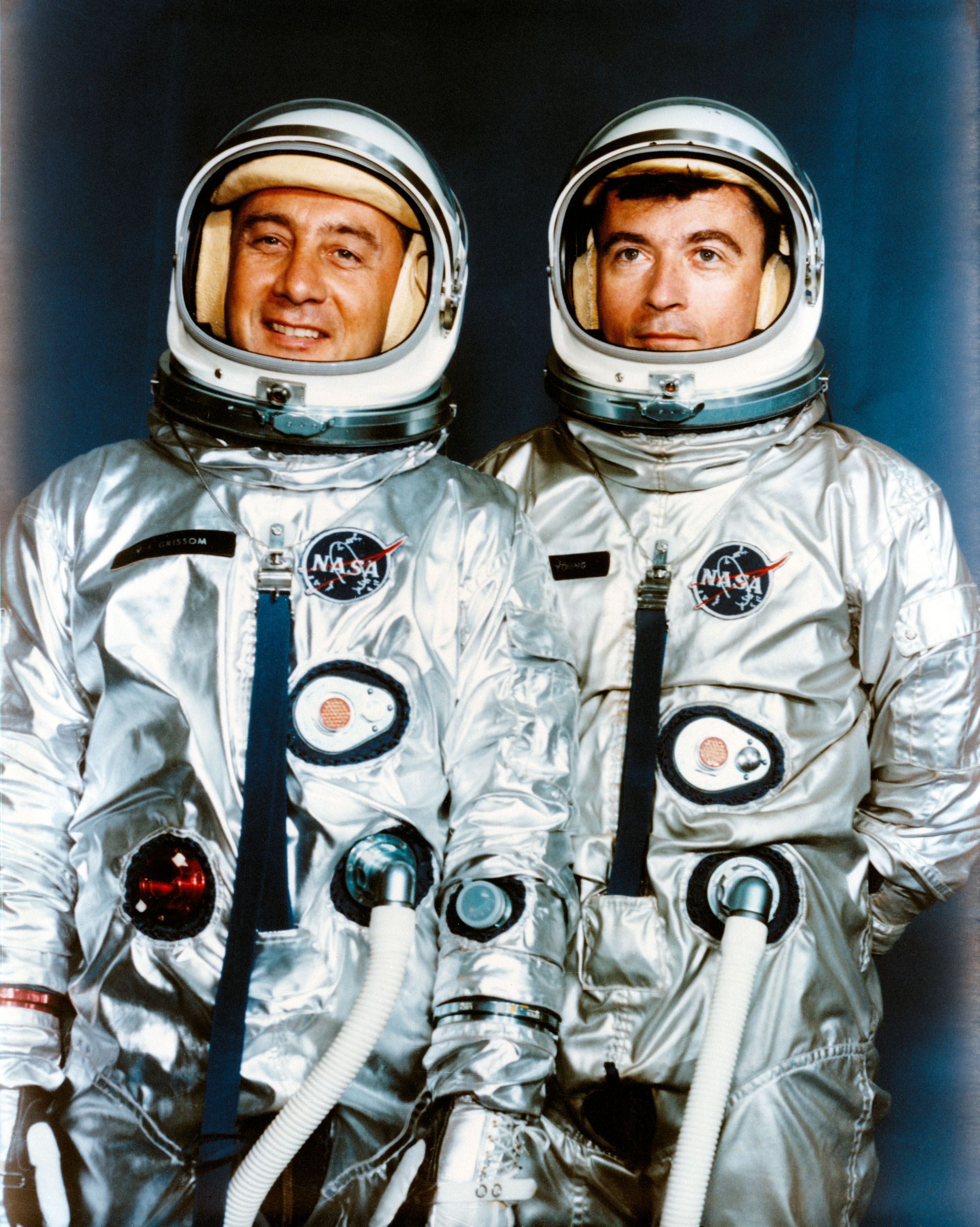 S64-19430 (13 April 1964) --- Astronauts Virgil I. Grissom (left), Gemini-3 command pilot; and John W. Young, pilot. EDITOR'S NOTE: Astronaut Grissom lost his life in the Apollo 1/Saturn 204 fire at Cape Kennedy on Jan. 27, 1967.